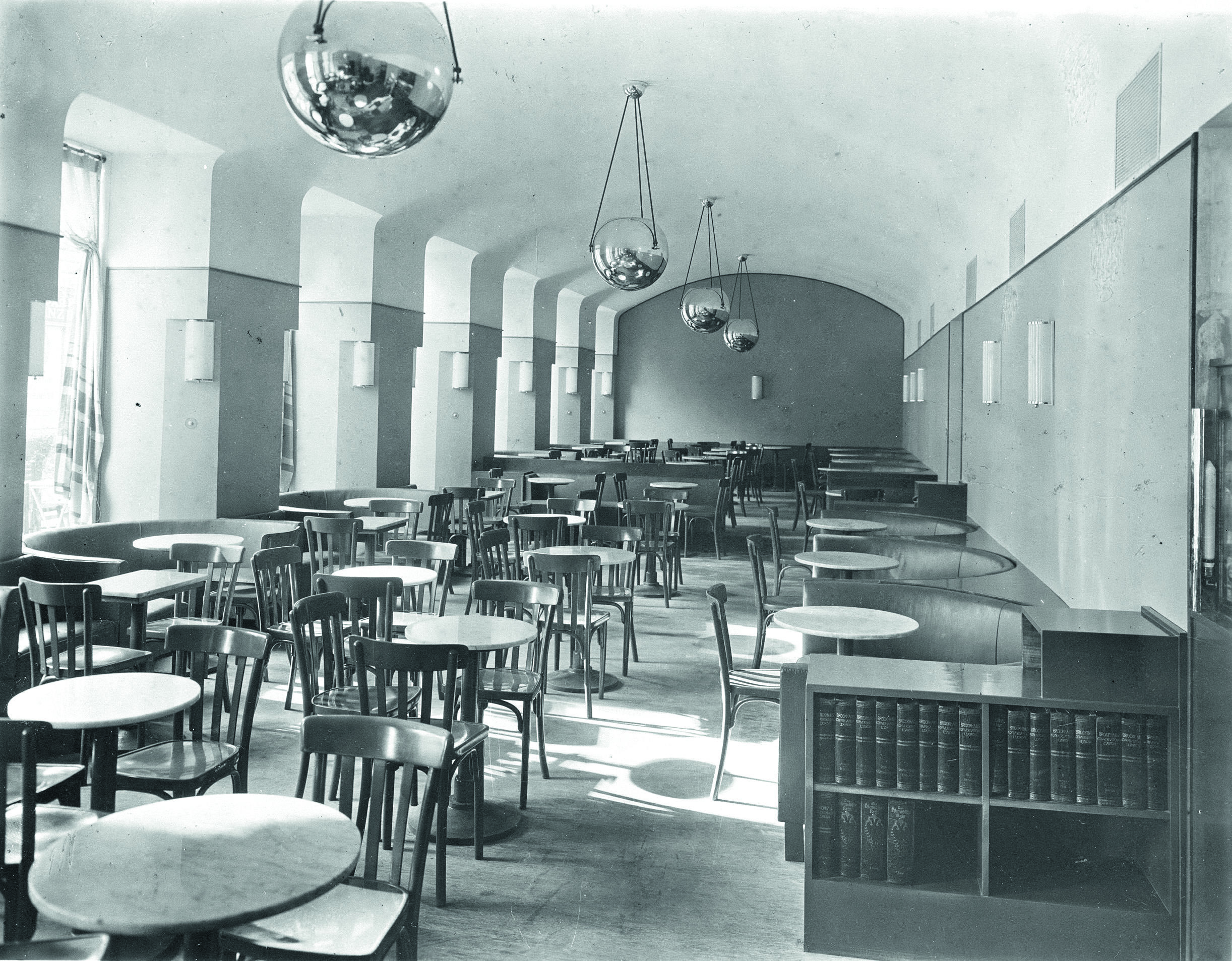 Cafe Museum in the 1930